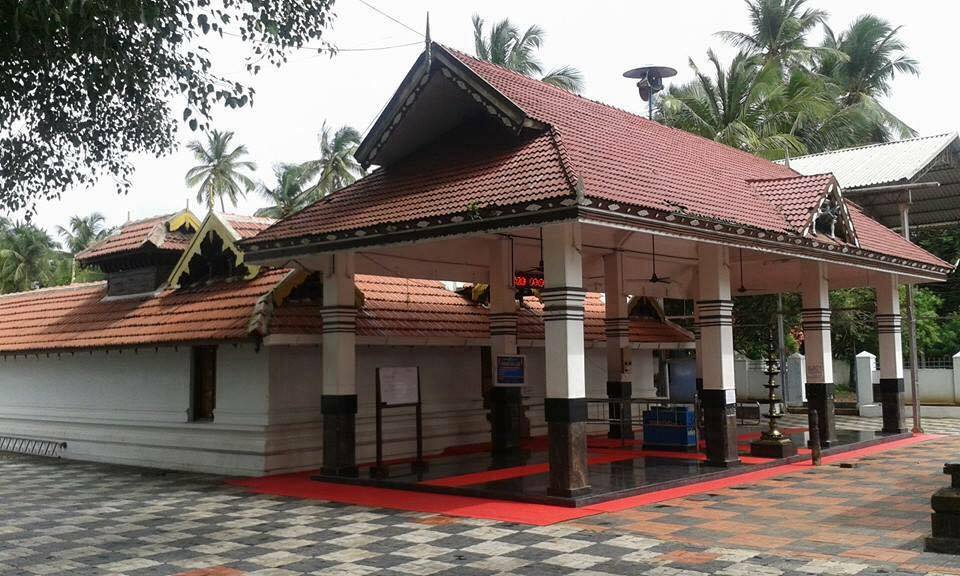 photograph of azhikulangara temple